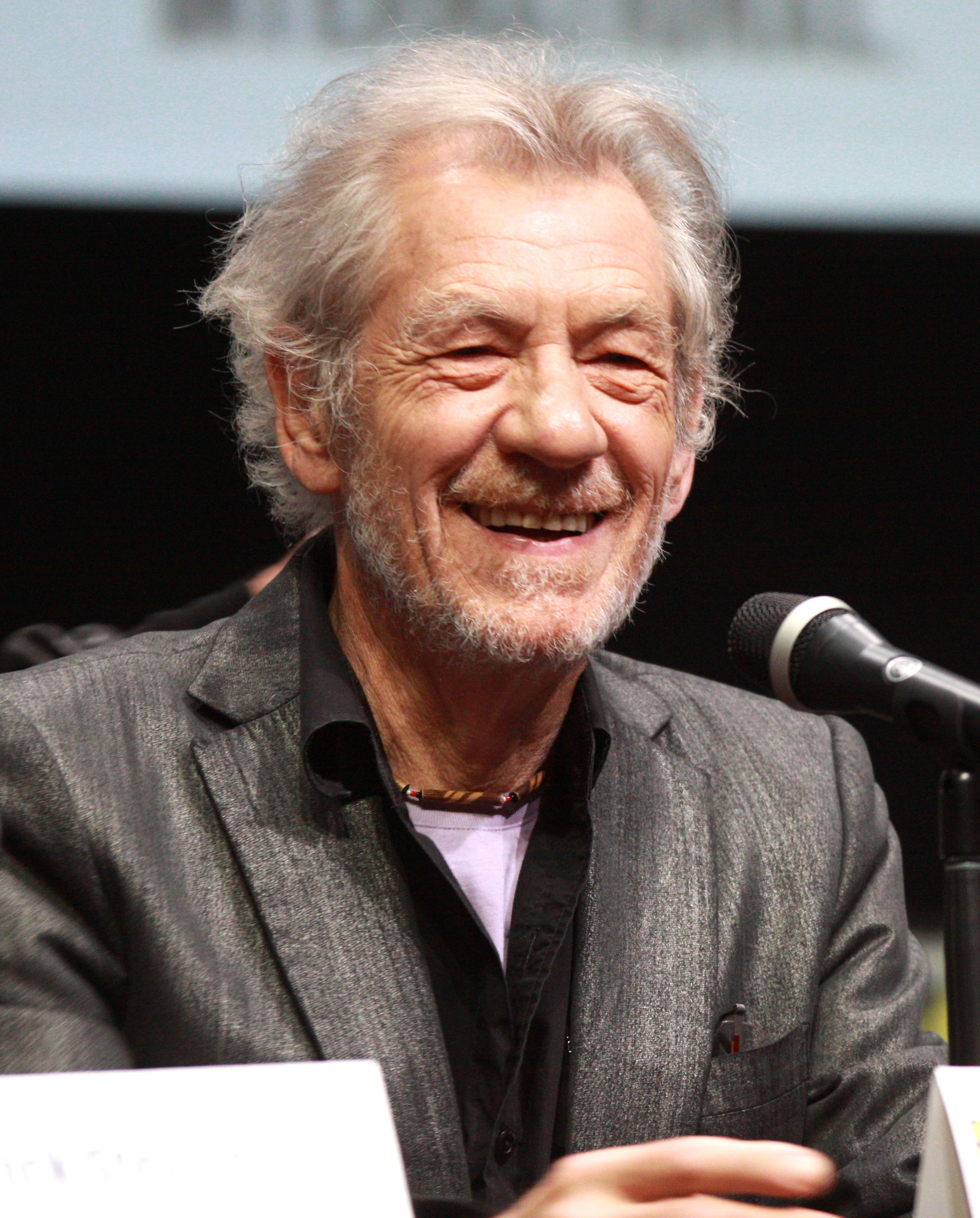 Ian McKellen at the 2013 San Diego Comic Con International in San Diego, California.